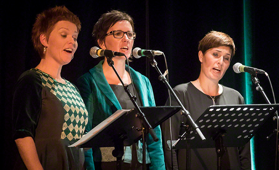 Sinikka Langeland at the stage of Cosmopolite. The concert took place on 19. October 2016 in Oslo. Lineup:Sinikka Langeland (kantele)Trio Mediaeval (vocal)Arve Henriksen (trumpet)Trygve Seim (saxophone)Anders Jormin (double bass)Markku Ounaskari (drums)Trio Mediaeval is: Anna Maria Friman (vocal)Linn Andrea Fuglseth (vocal)Torunn Østrem Ossum (vocal)